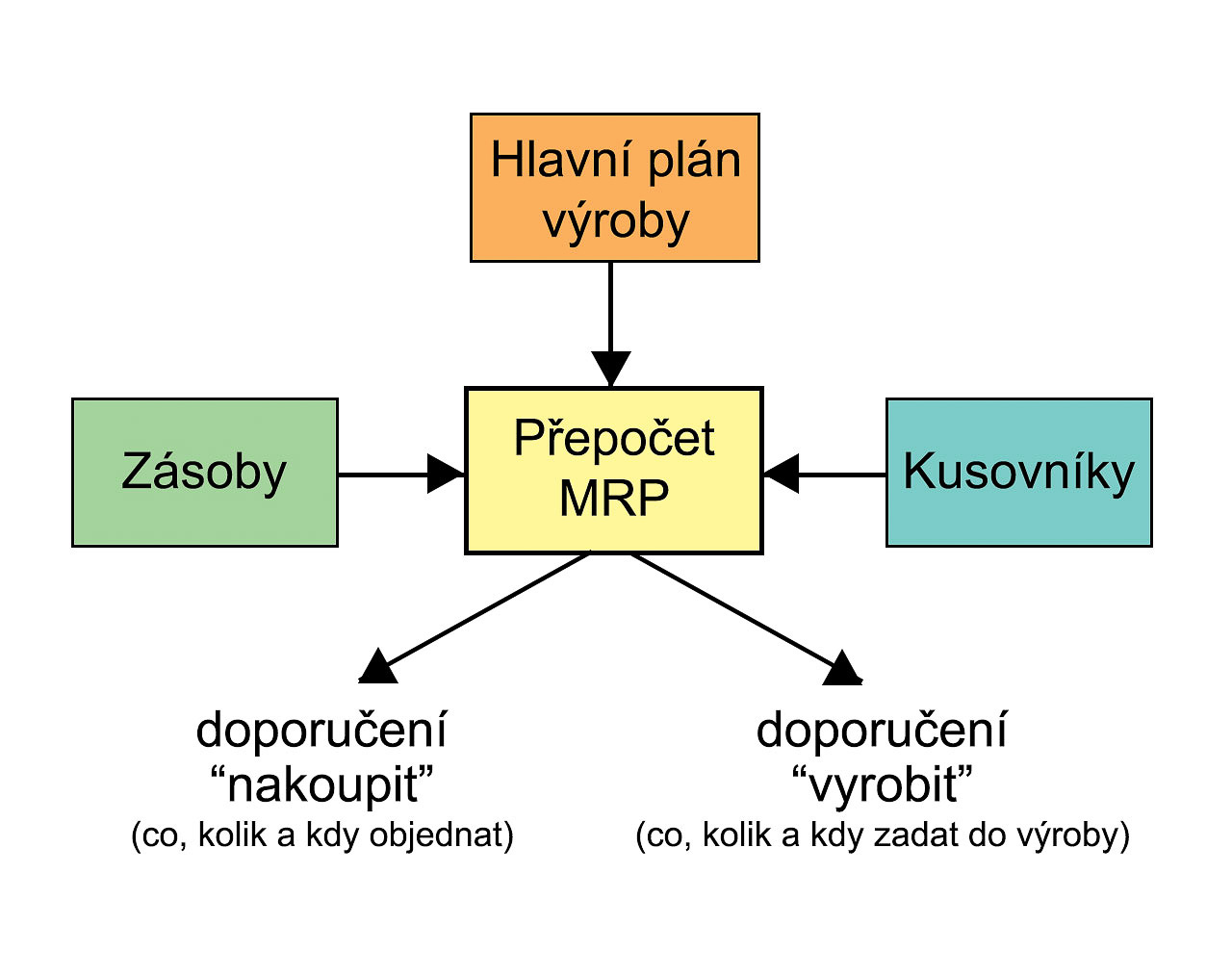 Simplified MRP flowchart